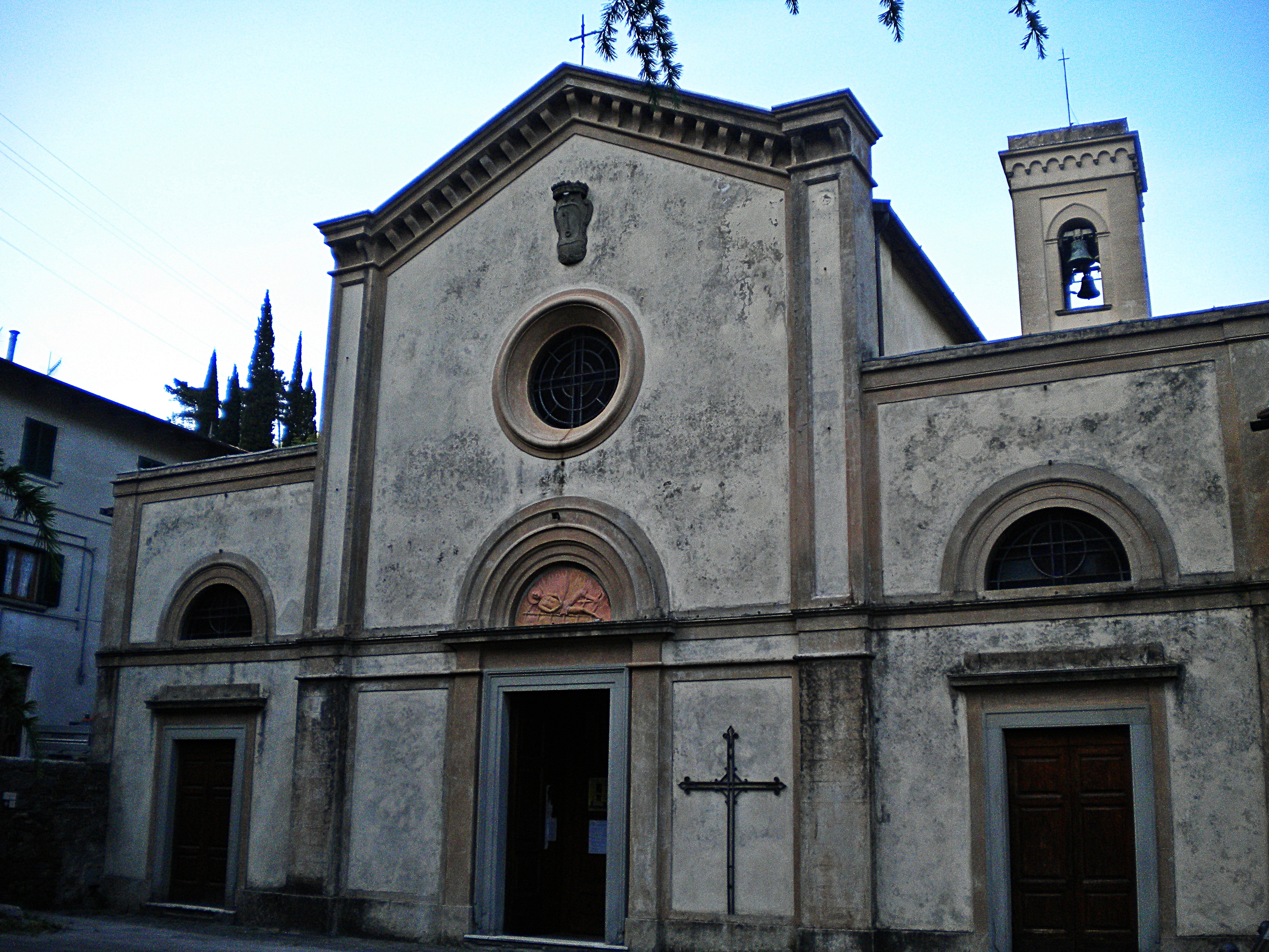 Usella